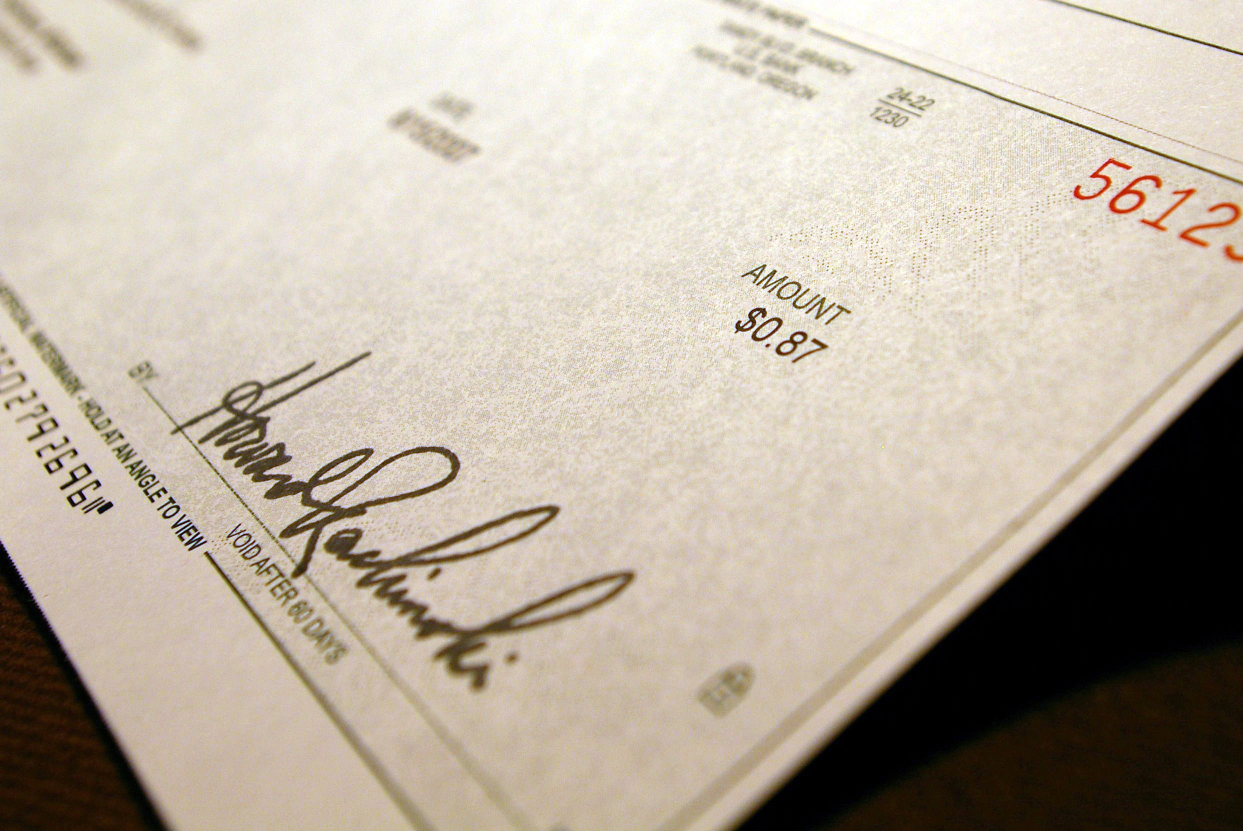 An example of a royalty cheque from a music publisher.